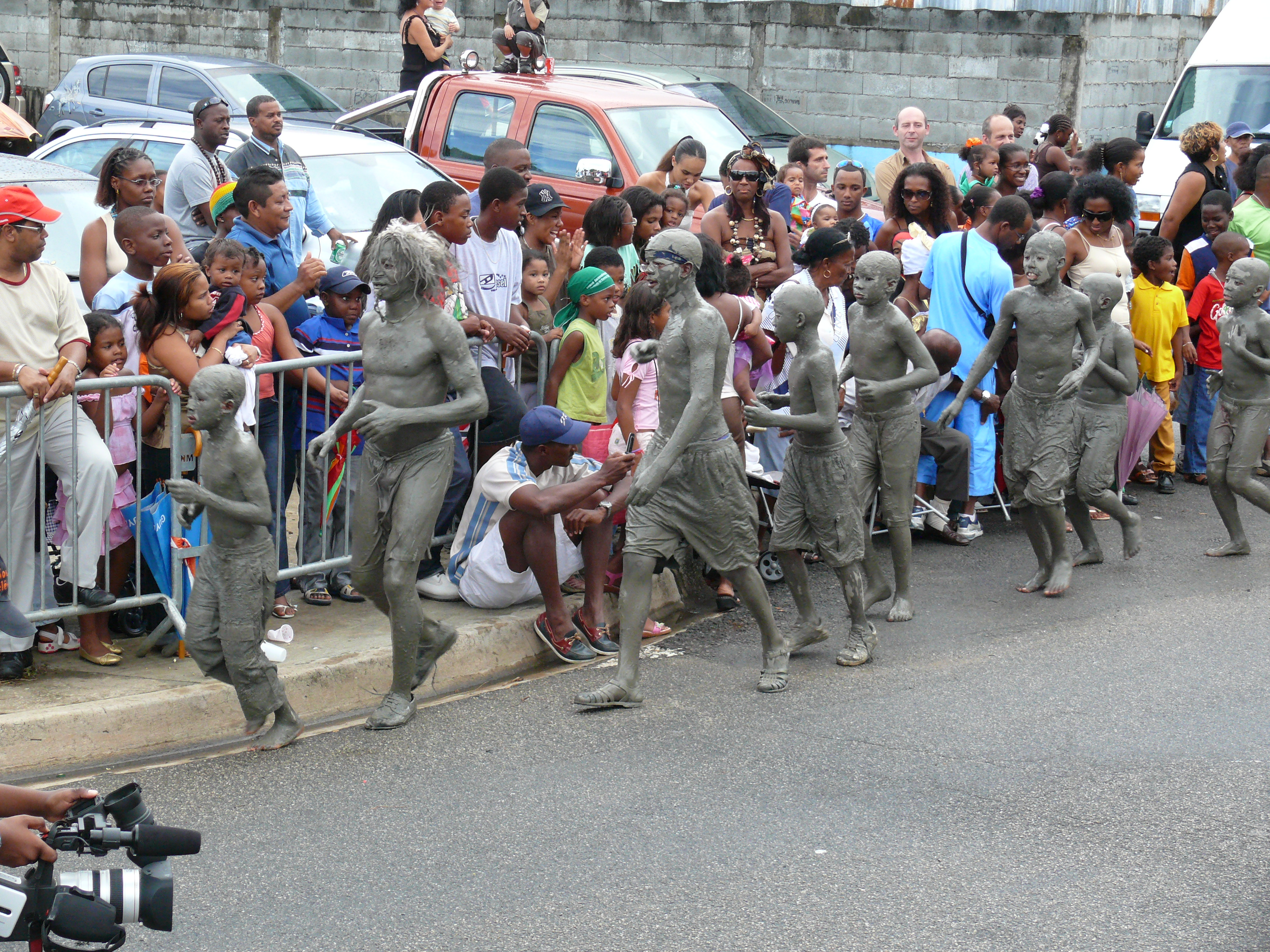 Nèg'marrons at Kourou's Carnival parade, 2007. The nèg'marrons job is to keep the crowd away from the street so the floats, dancers and musicians may pass unimpeded.